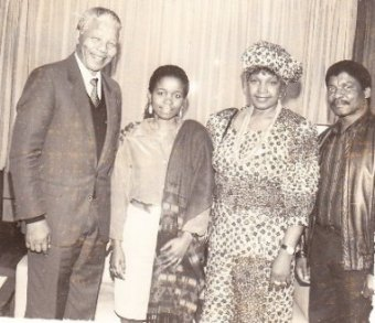 The Mozambican sculptor Alberto Chissano (right) with Nelson and Winnie Mandela and Chissano's daughter Cidalia in Museu Galeria Chissano, Matola, Mozambique. 1990